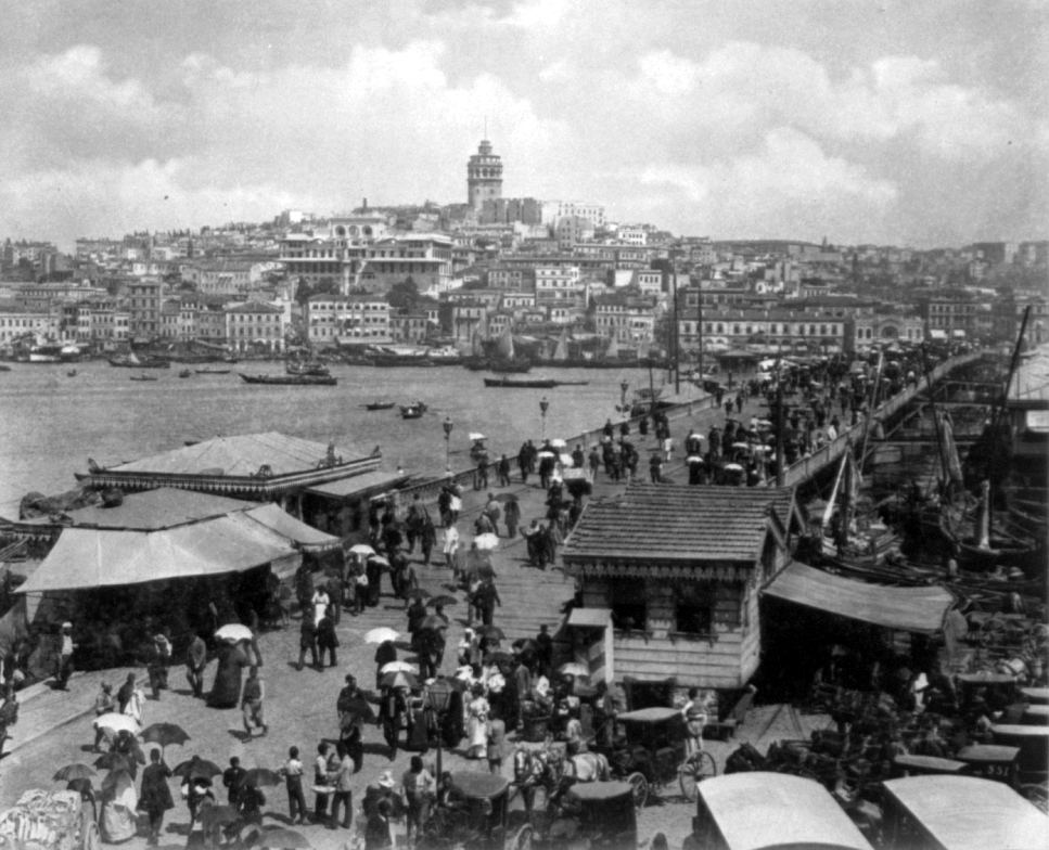 View of the "Third Galata Bridge" (completed in 1875) and the Galata area from Eminönü, Istanbul.